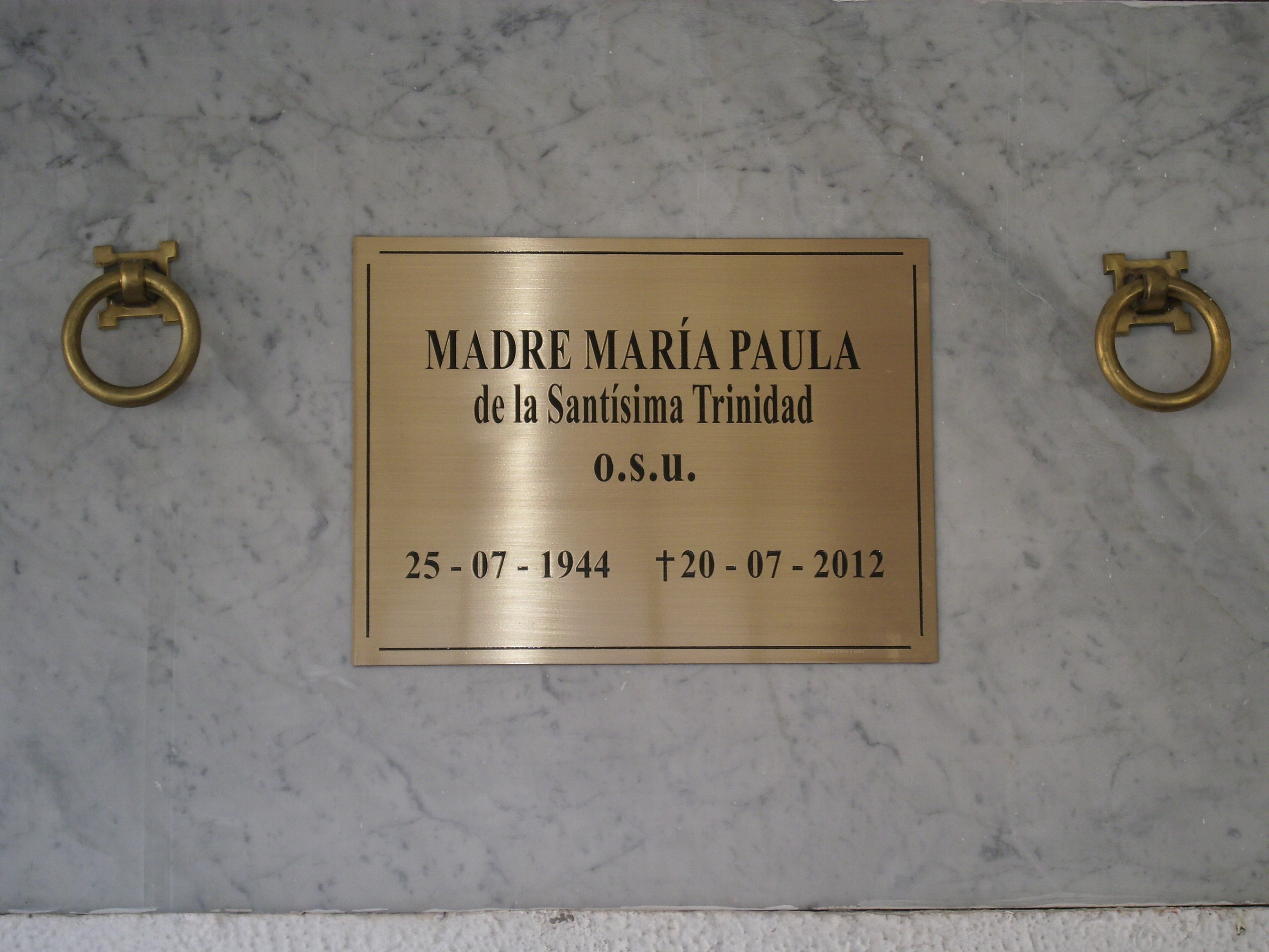 Thombstone of Madre María Paula de la Santísima Trinidad o.s.u. (Sor Paula of the Order of Saint Ursula (Ordinis Sanctae Ursulae); Isabel Margarita Lagos Droguett). Catholic cemetery of Maipú, Chile.